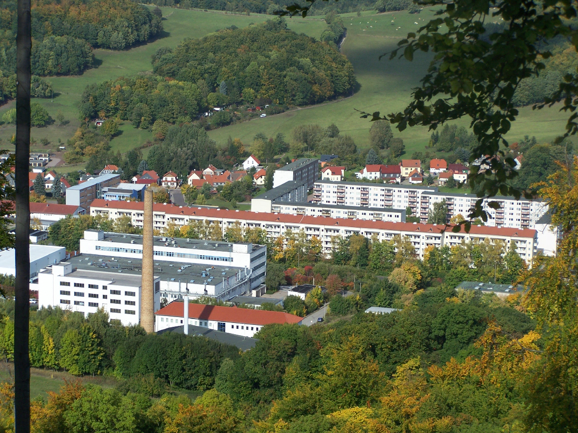 Overview: the living and factory development area in the 80ths.